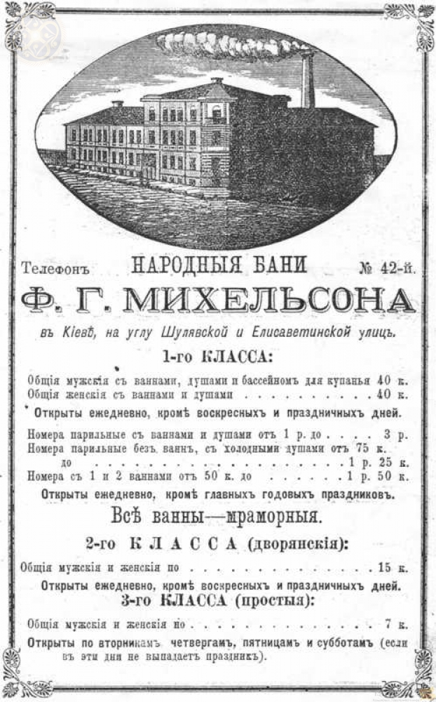 Advert_Narodnie_Bani photo